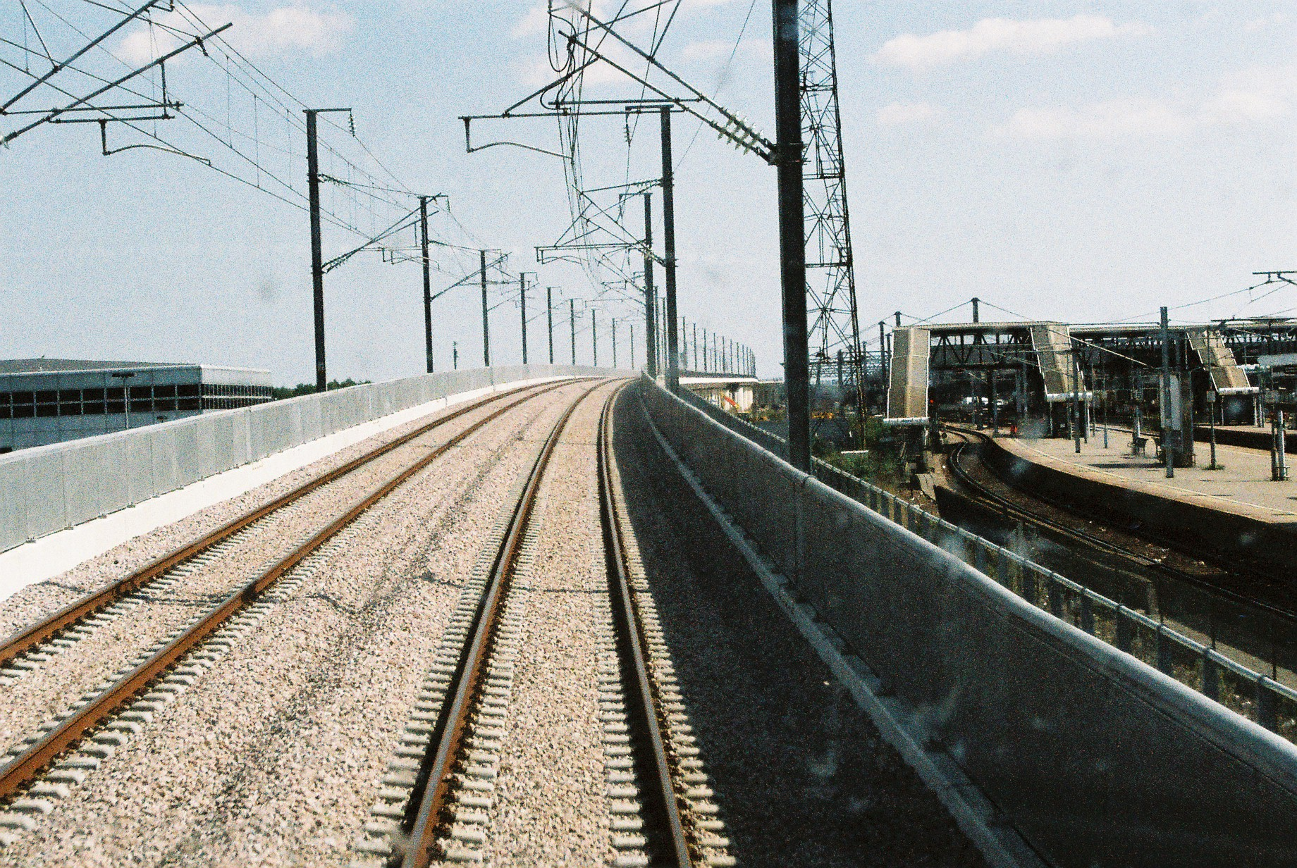 Ashford flyover with Ashford International railway station to right